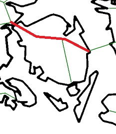 Map of railways on Funen in Denmark with the state railway between Nyborg, Middelfart and Fredericia (in Jutland) in red.